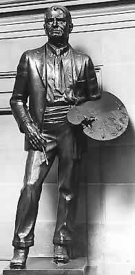 Statue of Charles Marion Russell at NSHC